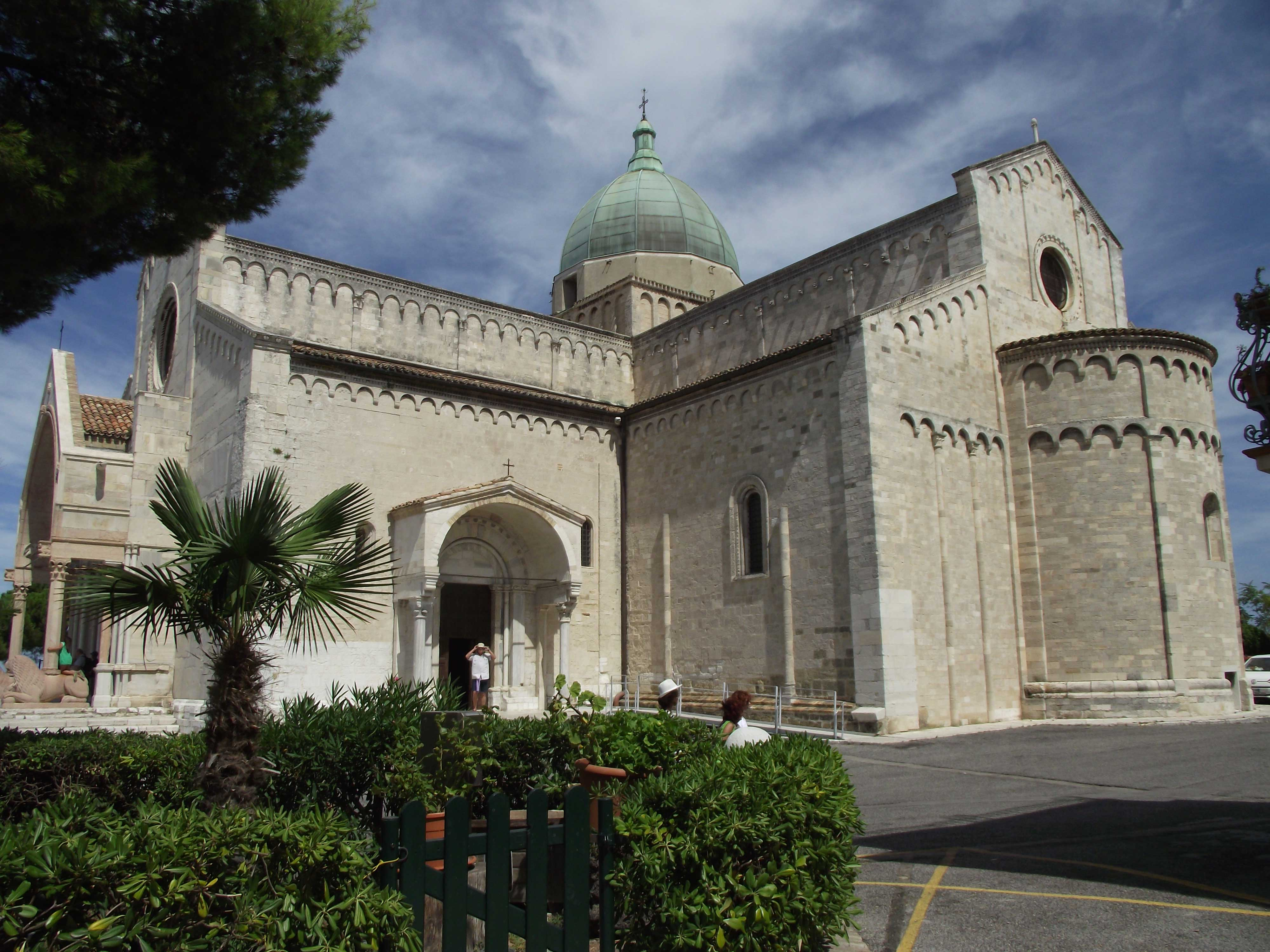 Ancona, Cathedral of St. Cyriacus, X-XII Century